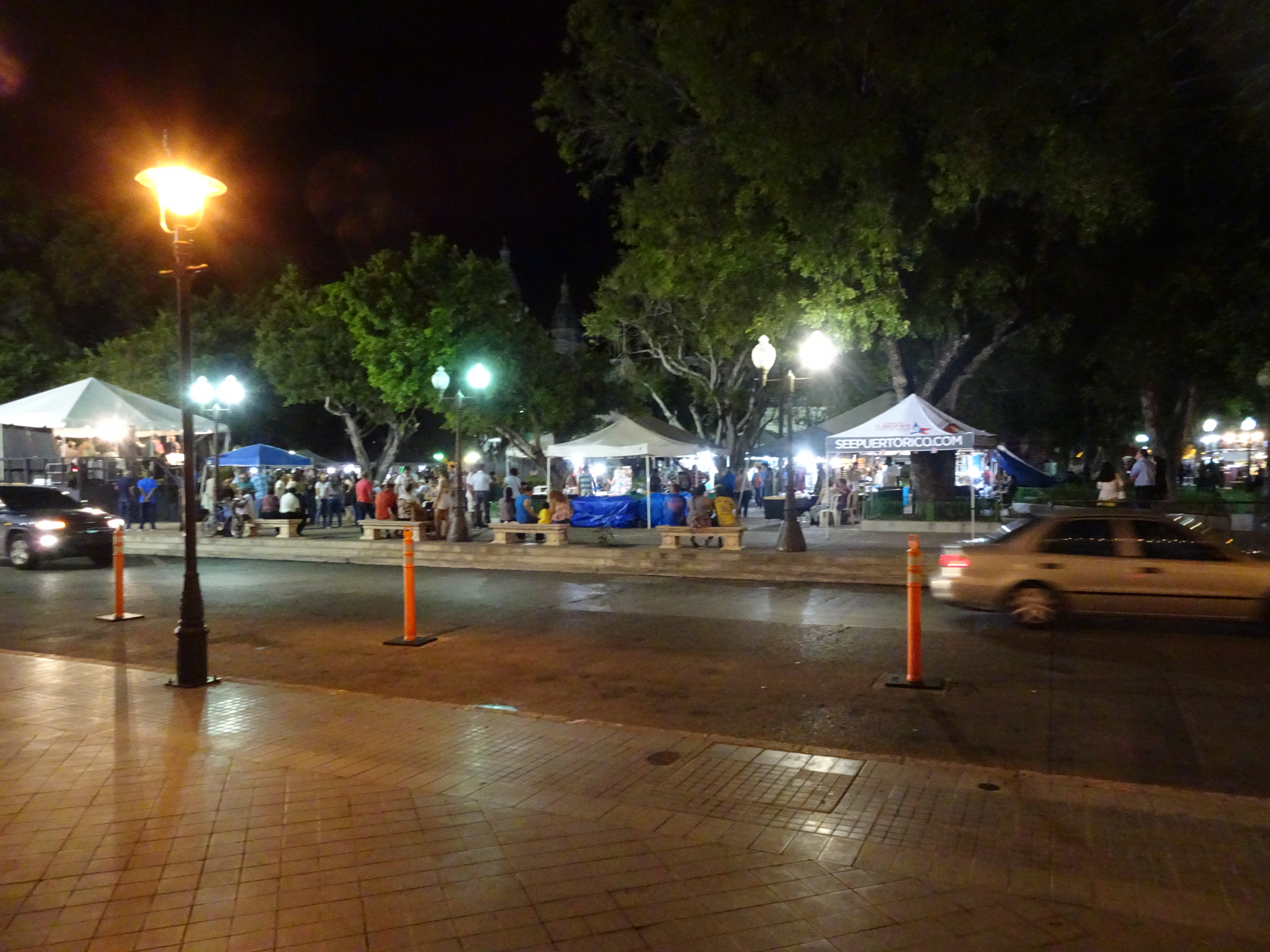 Feria de Artesanías de Ponce, Plaza Degetau, Ponce, Puerto Rico, mirando al norte-noroeste (DSC01002)